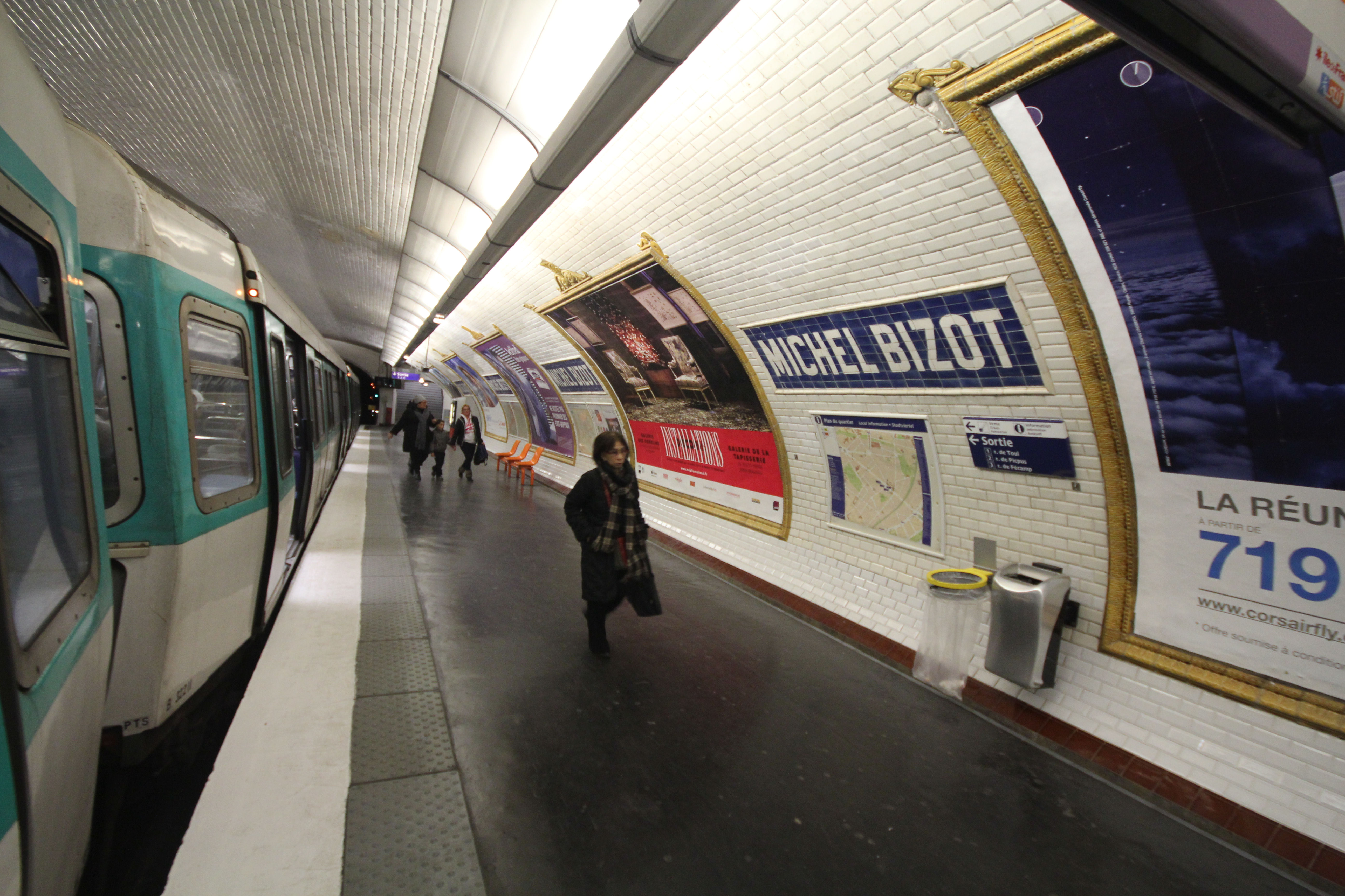 Metro station Michel Bizot on Parisian metro line 8